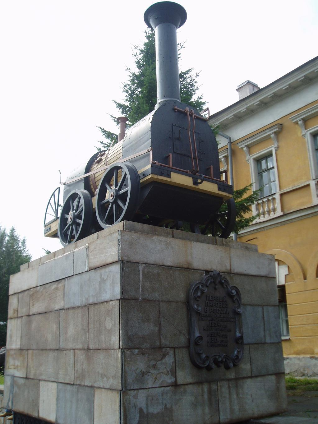 Replica of first locomotive of Russia (1834). Monument in Nizhny Tagil. Photo taken in summer 2005.